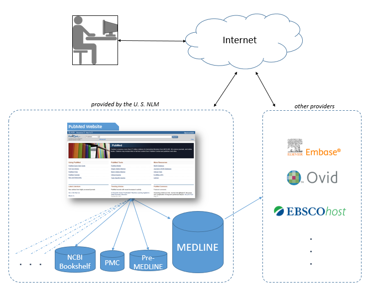 MEDLINE is the main database of PubMed maintained by the U.S. National Library of Medicine. You can search MEDLINE through other providers such as Embase, Ovid or EBSCOhost.